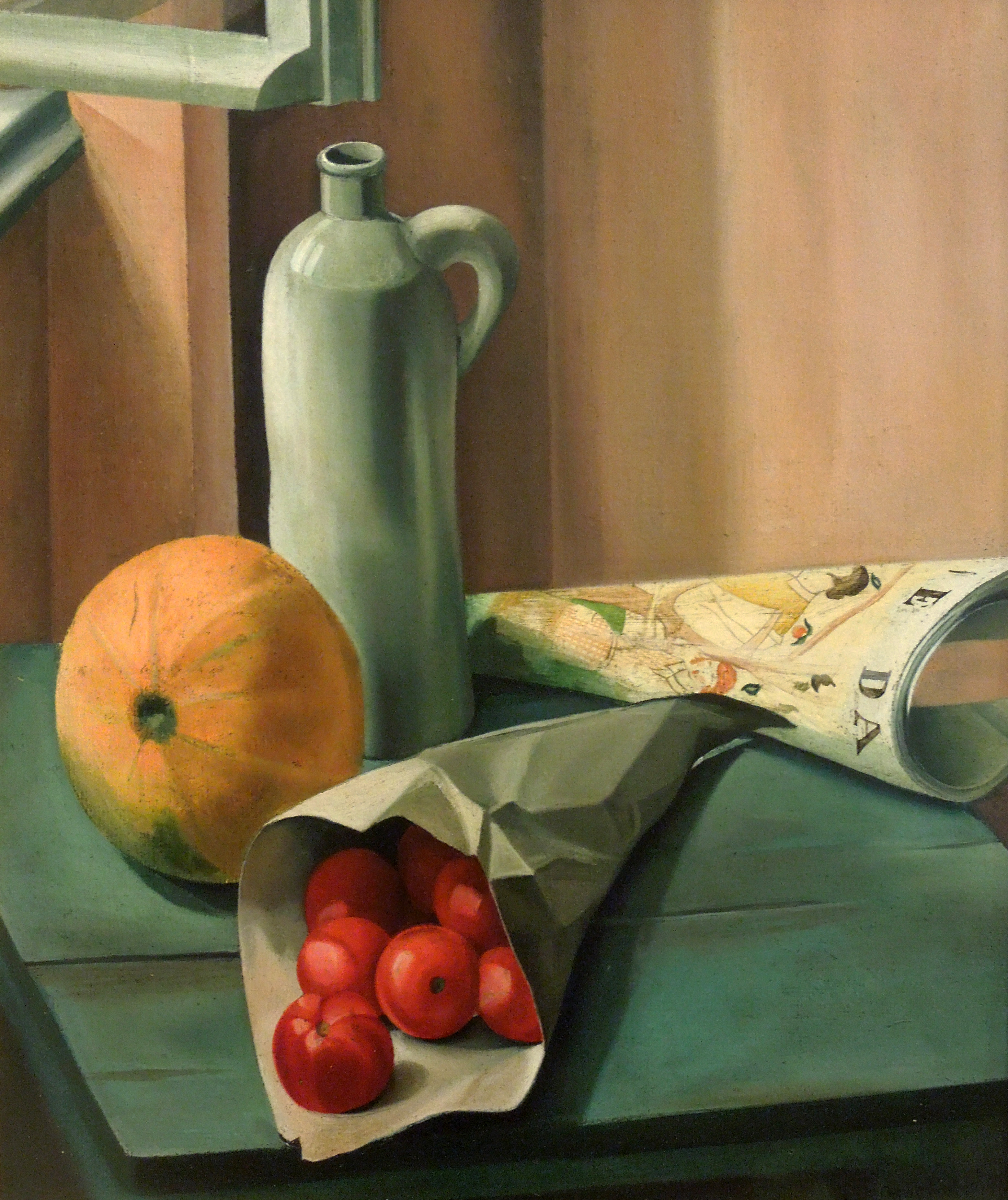 Still-Life with a Pumpkin, ca. 1928